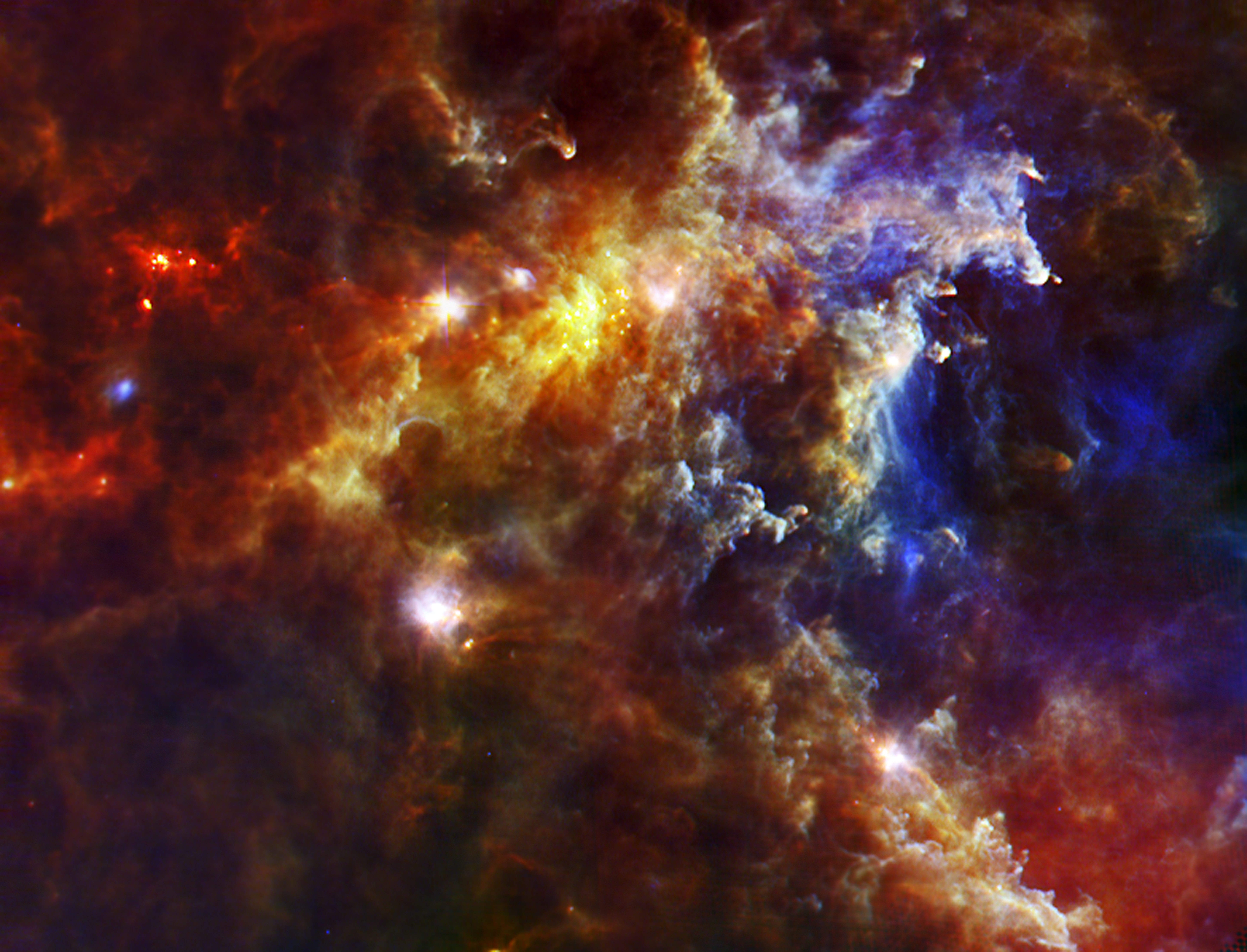 This image from the Herschel Space Observatory shows most the cloud associated with the Rosette nebula, a stellar nursery about 5,000 light-years from Earth in the Monoceros, or Unicorn, constellation. Herschel collects the infrared light given out by dust. The bright smudges are dusty cocoons containing massive embryonic stars, which will grow up to 10 times the mass of our sun. The small spots near the center of the image are lower mass stellar embryos. The Rosette nebula itself, and its massive cluster of stars, is located to the right of the picture. This image is a three-color composite showing infrared wavelengths of 70 microns (blue), 160 microns (green), and 250 microns (red). It was made with observations from Herschel's Photoconductor Array Camera and Spectrometer and the Spectral and Photometric Imaging Receiver instruments. Herschel is a European Space Agency cornerstone mission, with science instruments provided by consortia of European institutes and with important participation by NASA. NASA's Herschel Project Office is based at NASA's Jet Propulsion Laboratory. JPL contributed mission-enabling technology for two of Herschel's three science instruments. The NASA Herschel Science Center, part of the Infrared Processing and Analysis Center at the California Institute of Technology in Pasadena, supports the United States astronomical community. Caltech manages JPL for NASA. .